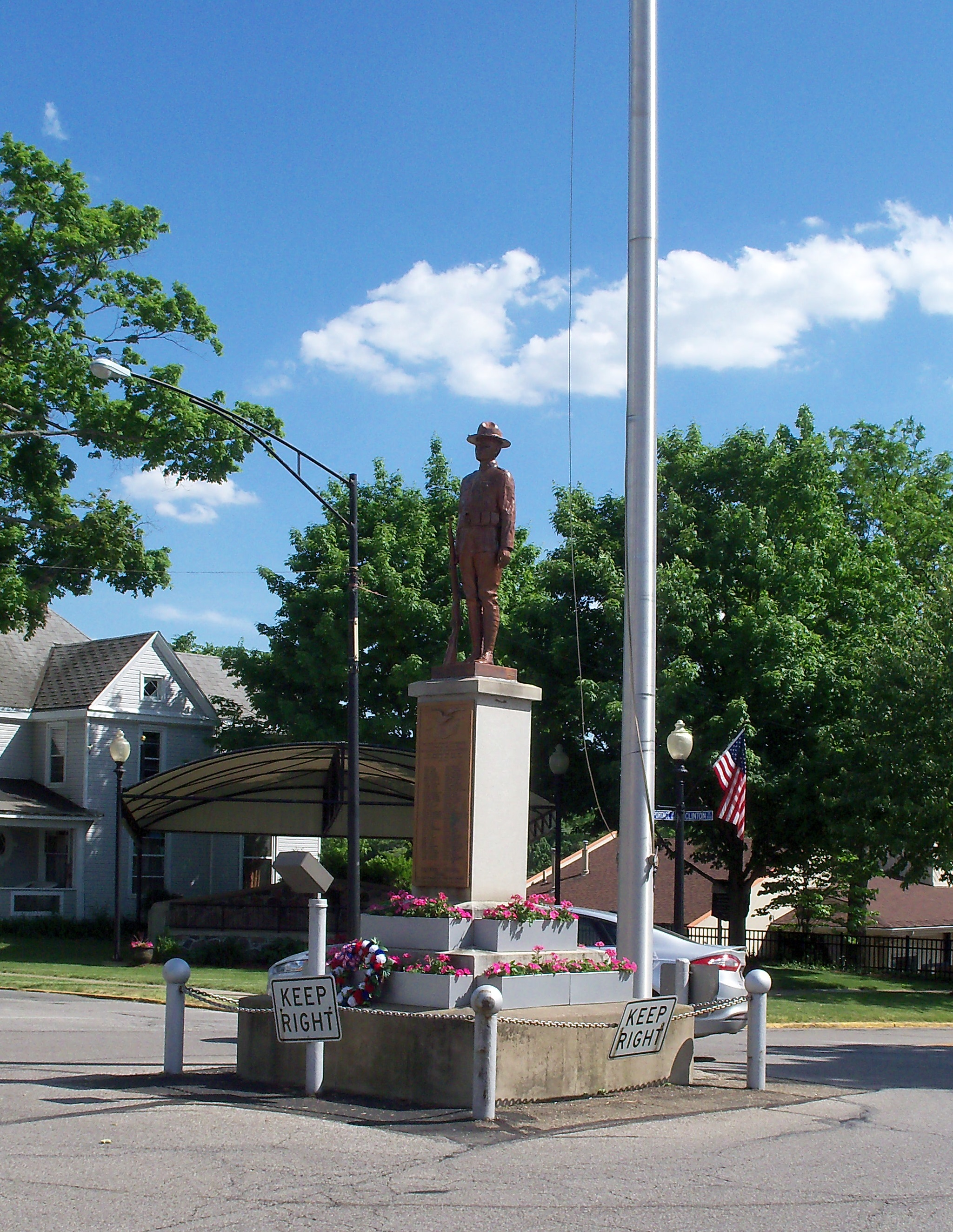 This statue and plaque is at roundabout in Doylestown, Ohio